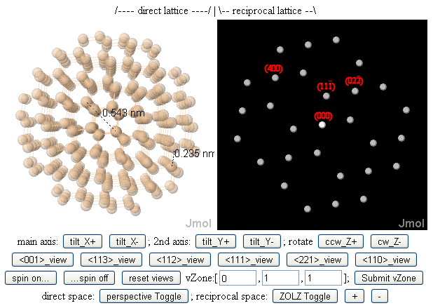 Here's a partially marked-up view of Si down the [011] zone. The (000) spot in the single-crystal diffraction pattern at right is also known as "the unscattered beam" or "the DC i.e. zero-frequency peak". In the direct-space image at left, the 0.543[nm] line denotes one edge of the cubic unit cell, while the 0.235[nm] line marks the tetrahedral nearest-neighbor distance between two adjacent silicon atoms.